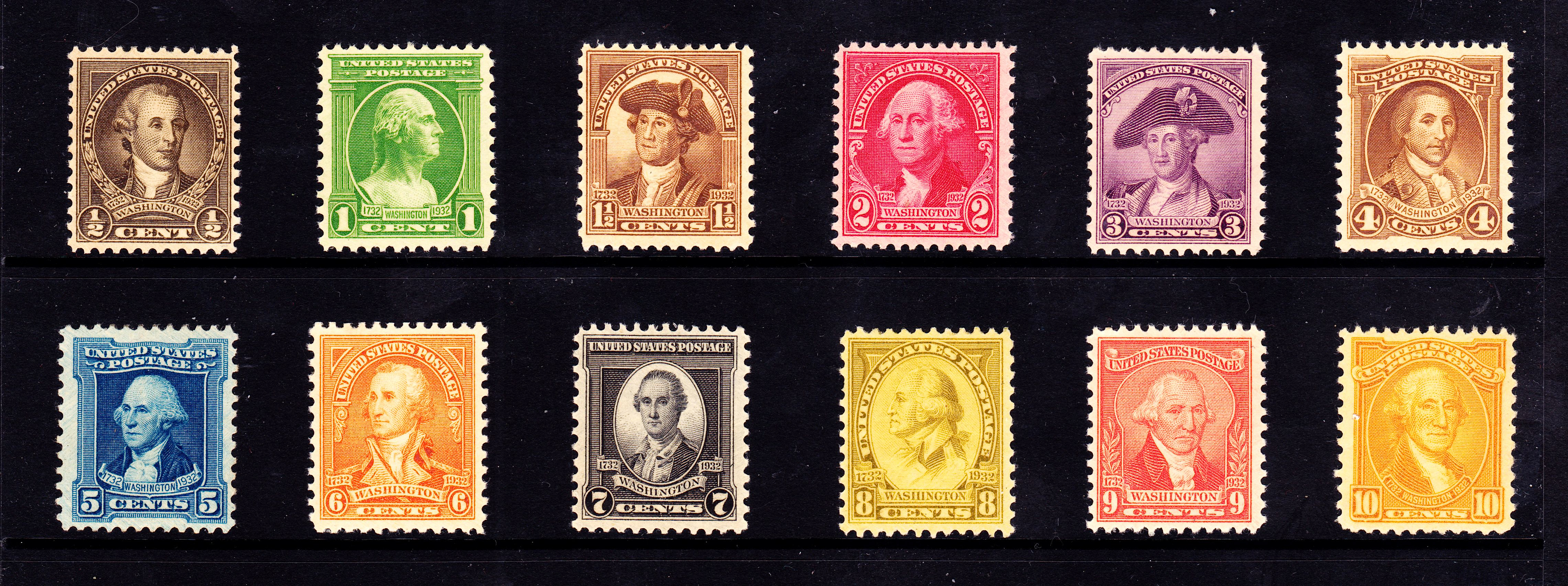 US Postage stamps: George Washington Bicentennial issue of 1932, 12 postage issues in the series.